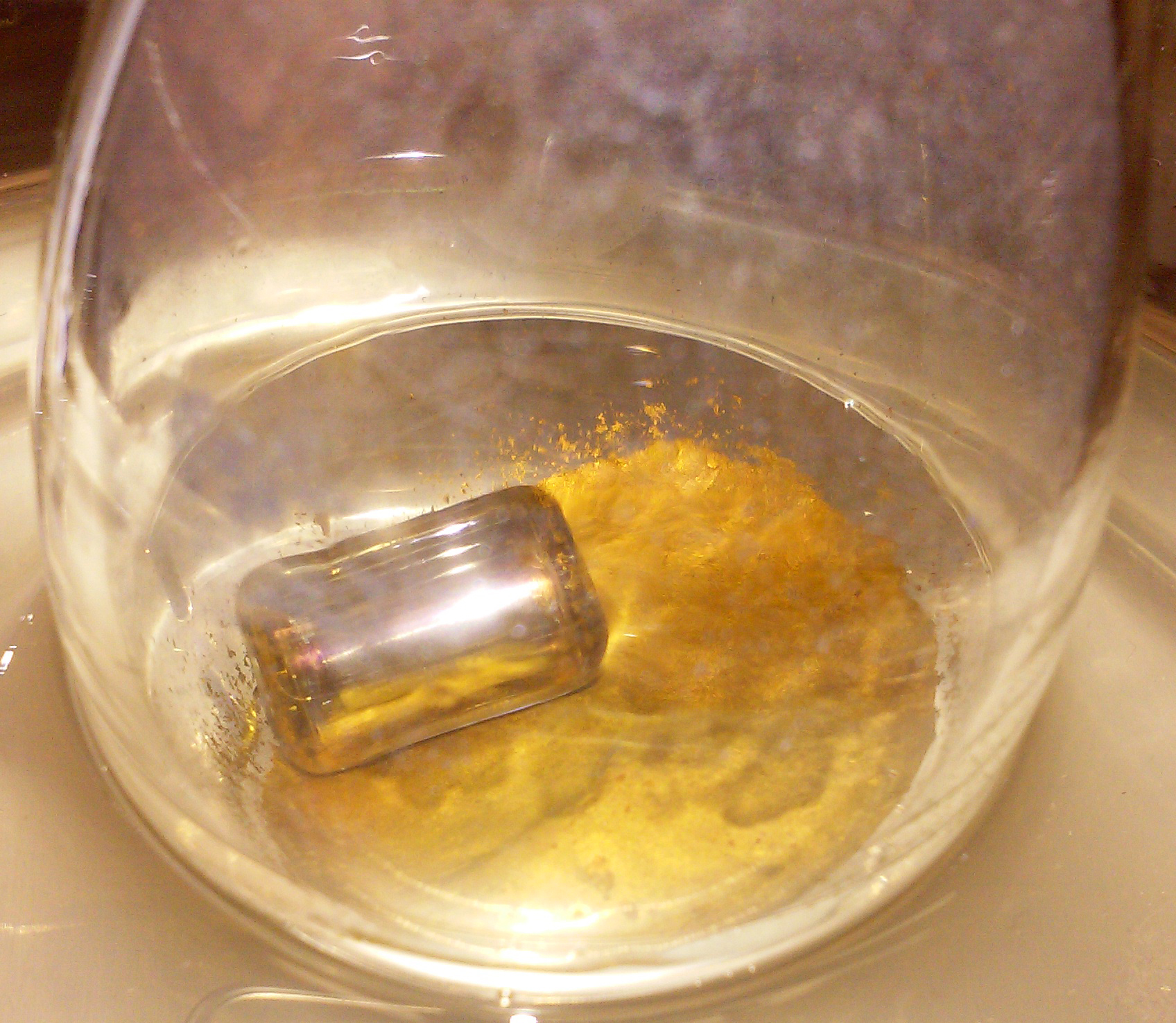 Potassium graphite under argon in a Schlenk flask equipped with a glass-coated stir bar.